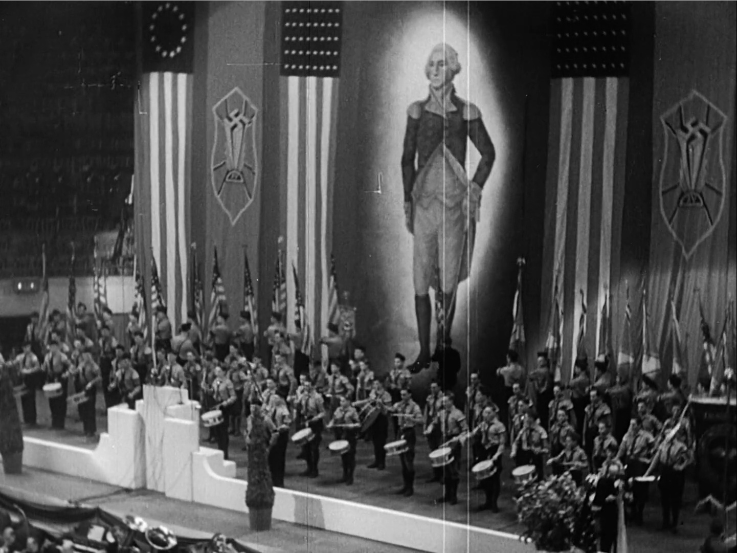 German American Bund rally New York, Madison Square Garden, Febr 1939; from "The Nazis Strike" 1943